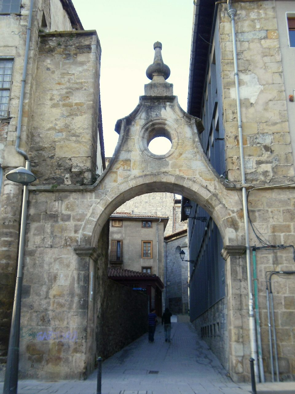 Arrasate-Mondragón (Guipúzcoa, País Vasco, España)